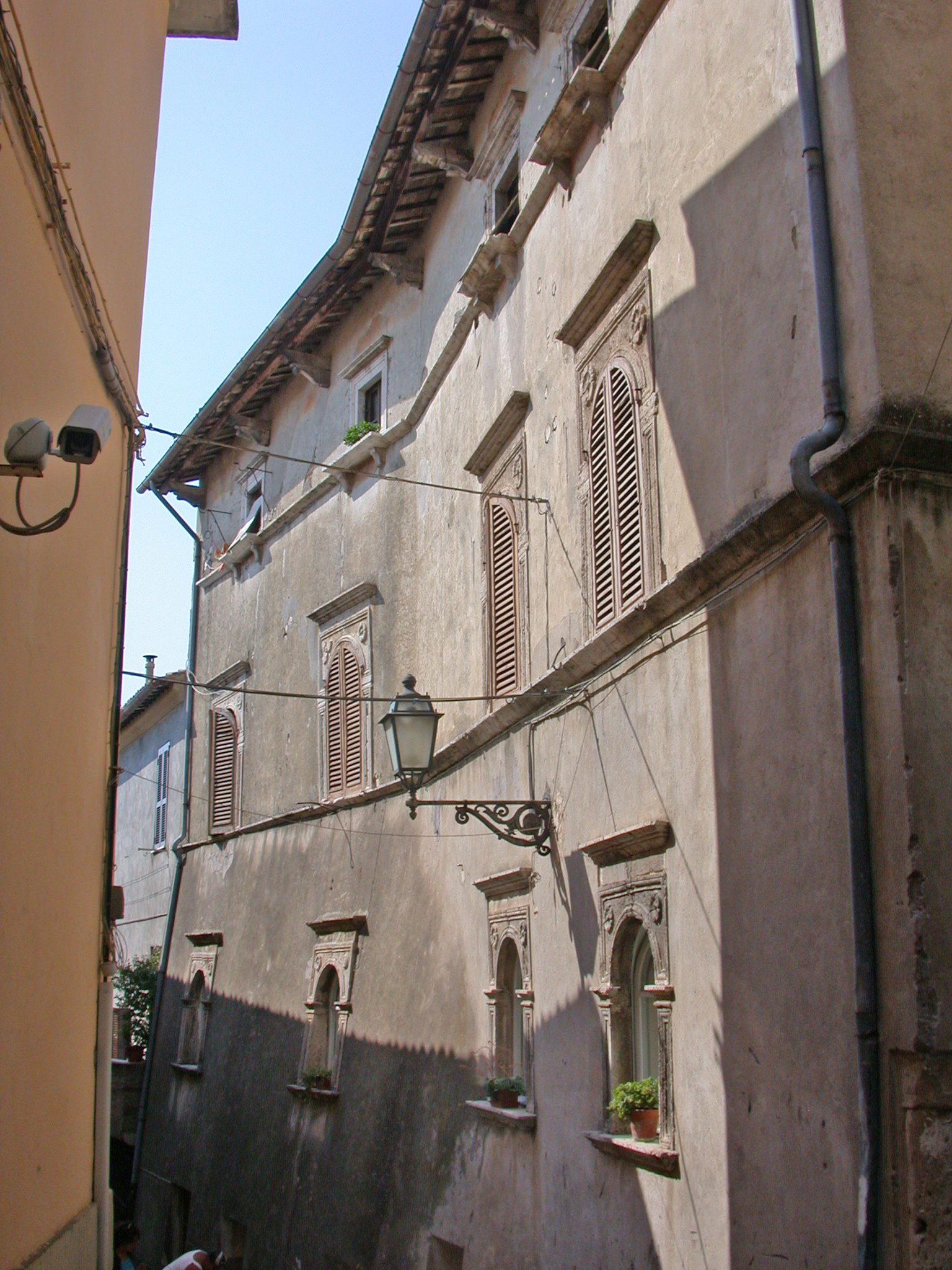 Fara in Sabina (Latium, Italy): Palazzo Orsini. Personal photo (june 2005) by MM in it.wiki.